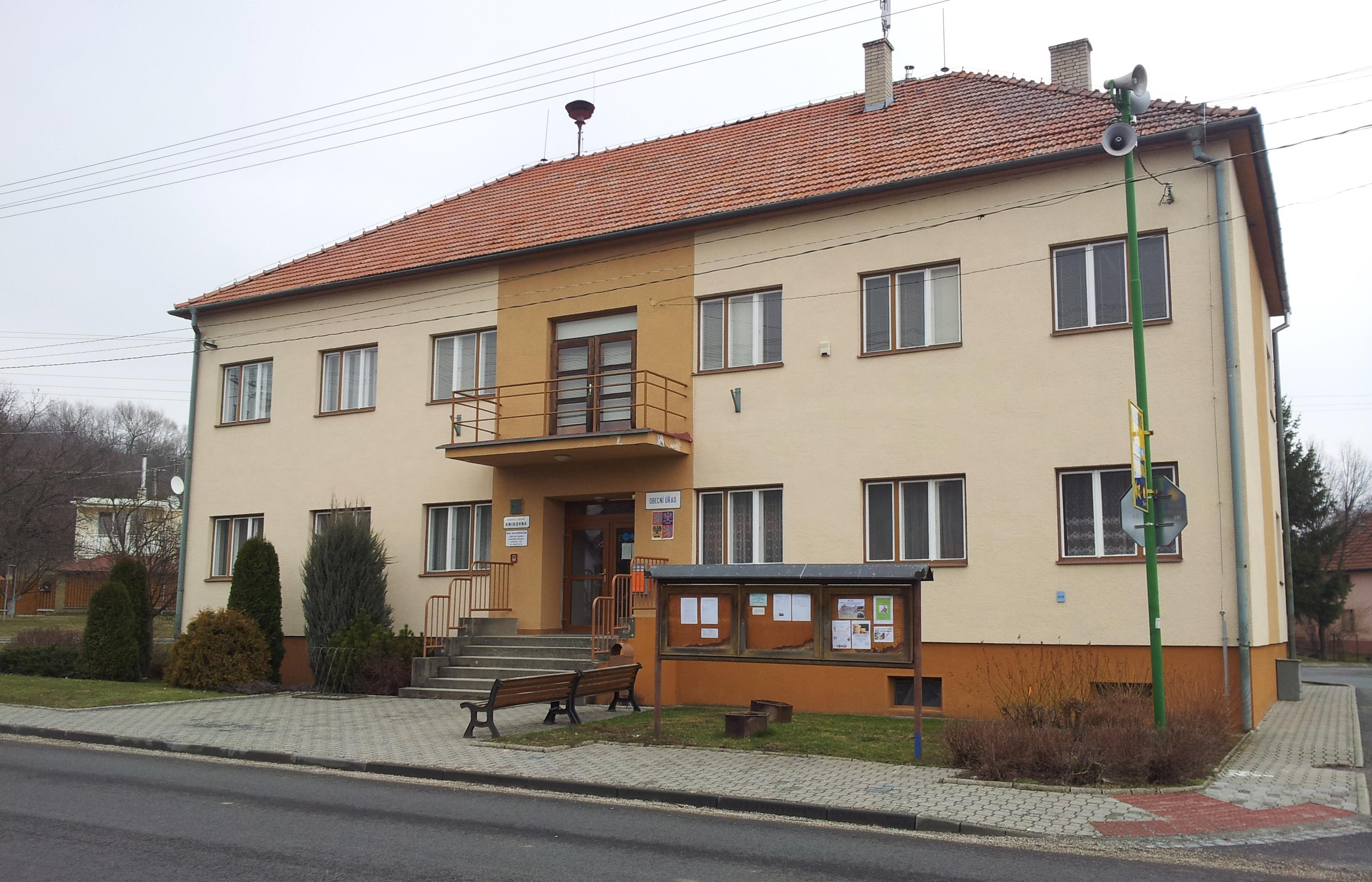 Pašovice, Uherské Hradiště District, Czechia.